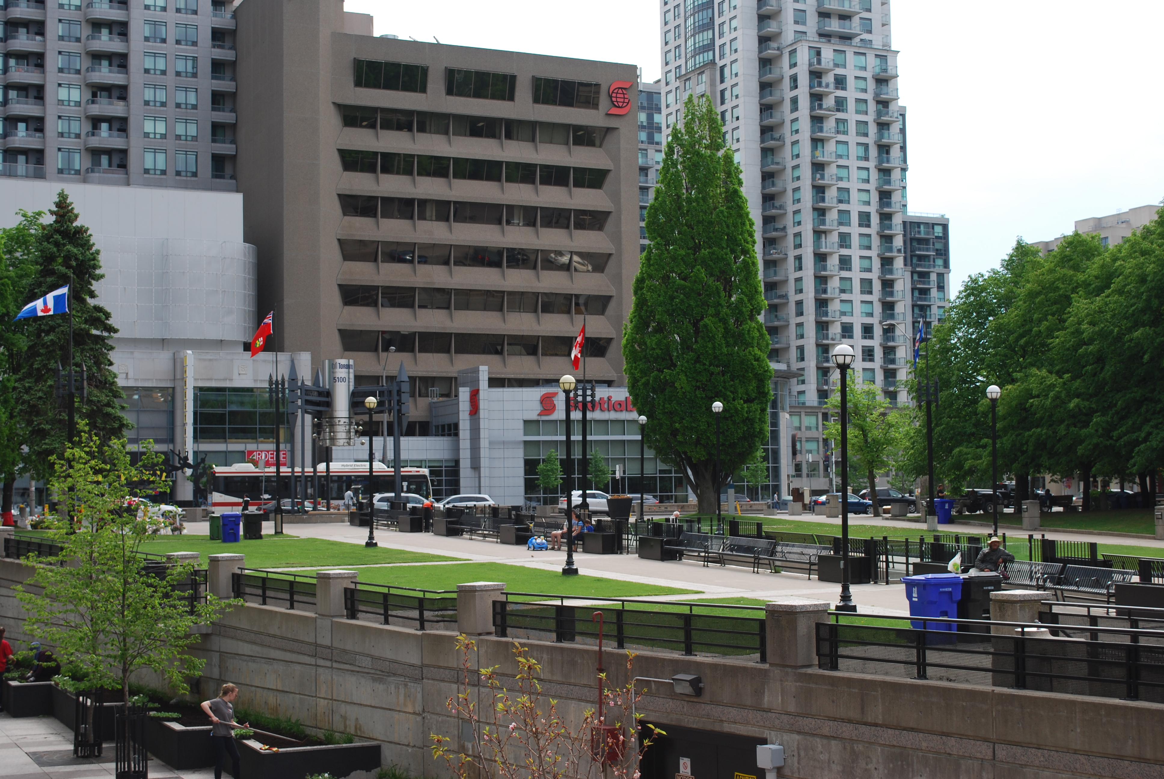 Mel Lastman Square, looking east towards Yonge Street from the North York Civic Centre.